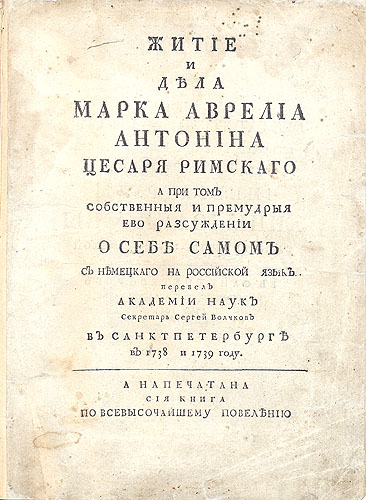 Cover of the book translated by S.S.Volchkov